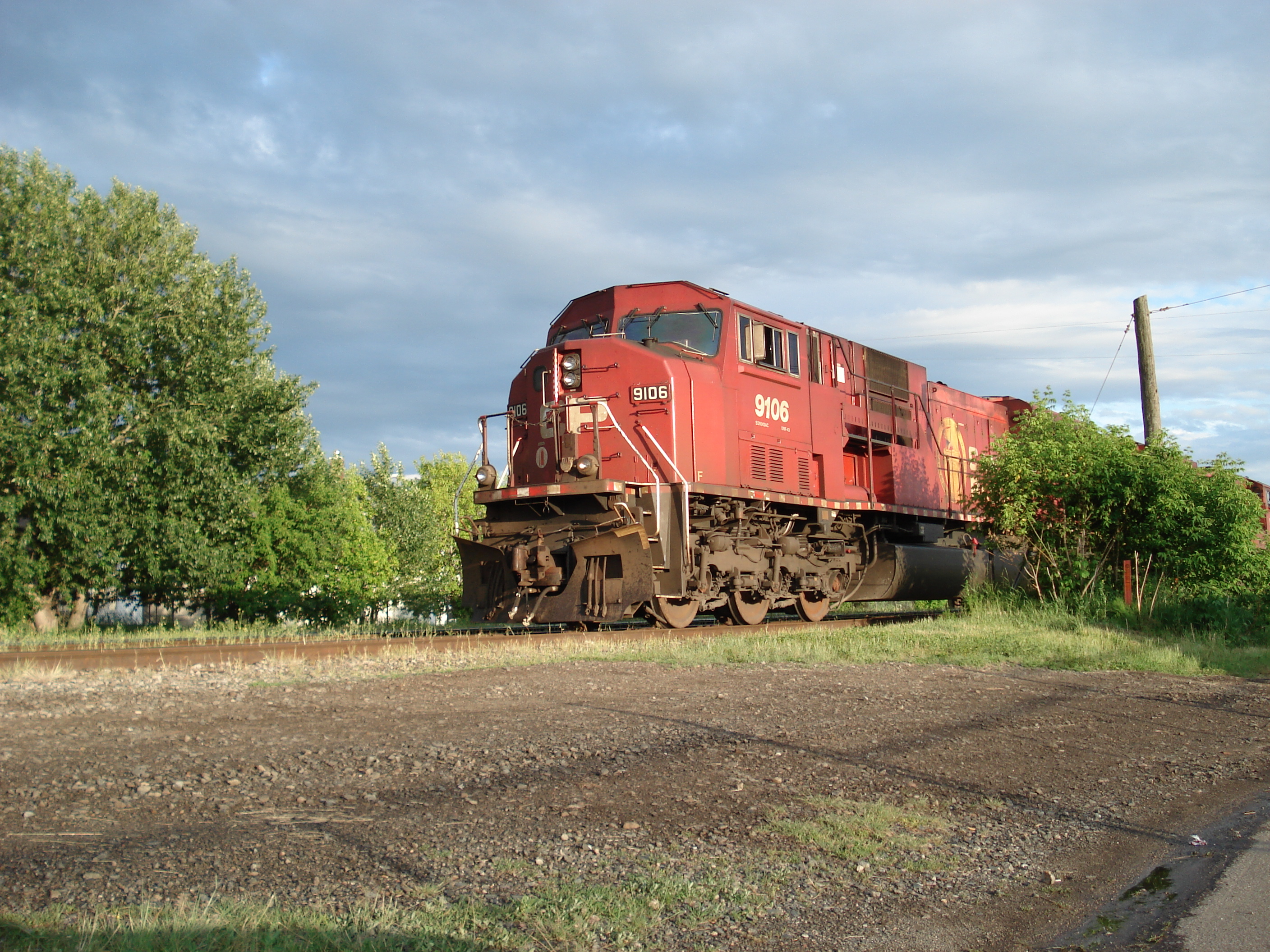 CP Rail Loco in Thunder Bay ON